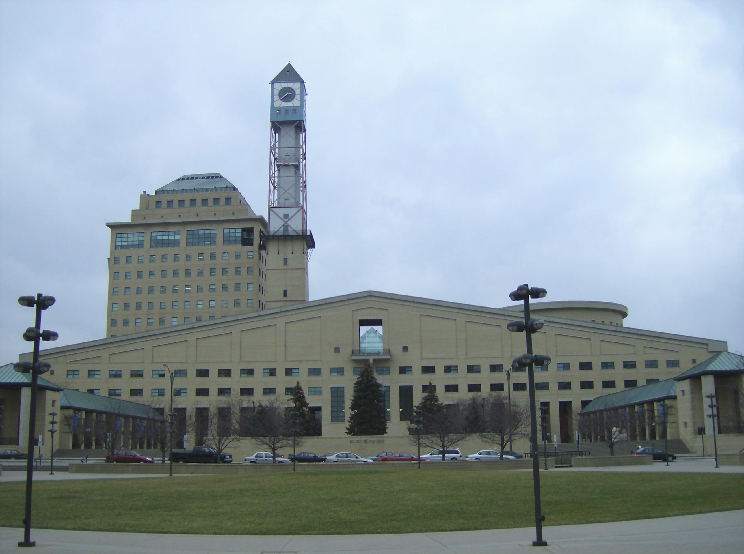 my photo self made